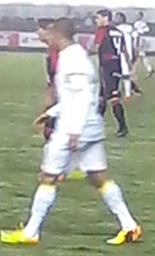 Bruno Peres playing for Santos FC against EC Vitória on 24 August 2013.